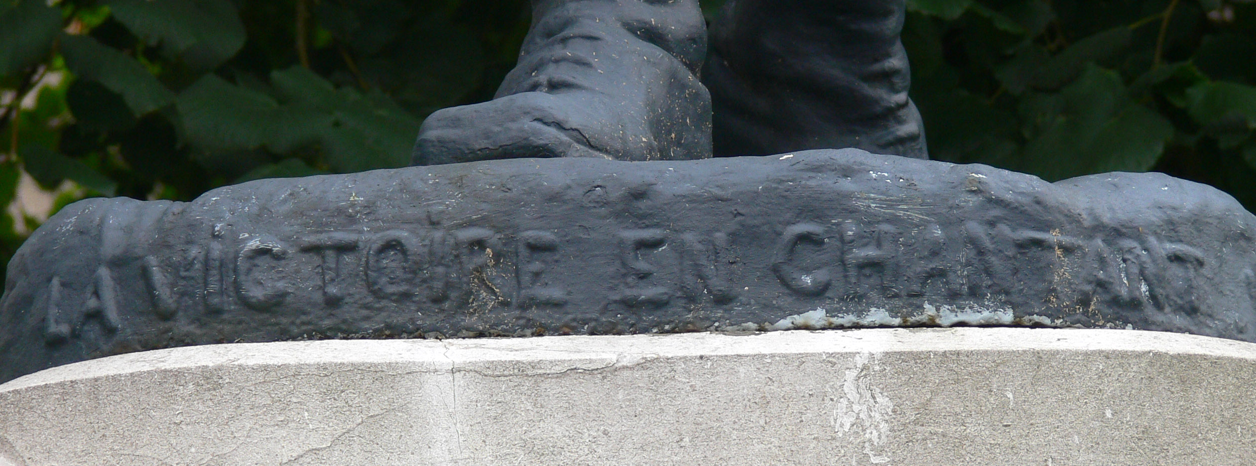 Detail of the base of a french sculpture named "La victoire en chantant" (Victory singing", wich is a War (14-18) memorial in Phalempin (in north of France, near Lille). Cf. "Chant du Départ" (French for "Song of the Departure") is a revolutionary and war song written by Étienne Nicolas Méhul (music) and Marie-Joseph Chénier (words) in 1794. It was the official anthem of the First Empire.